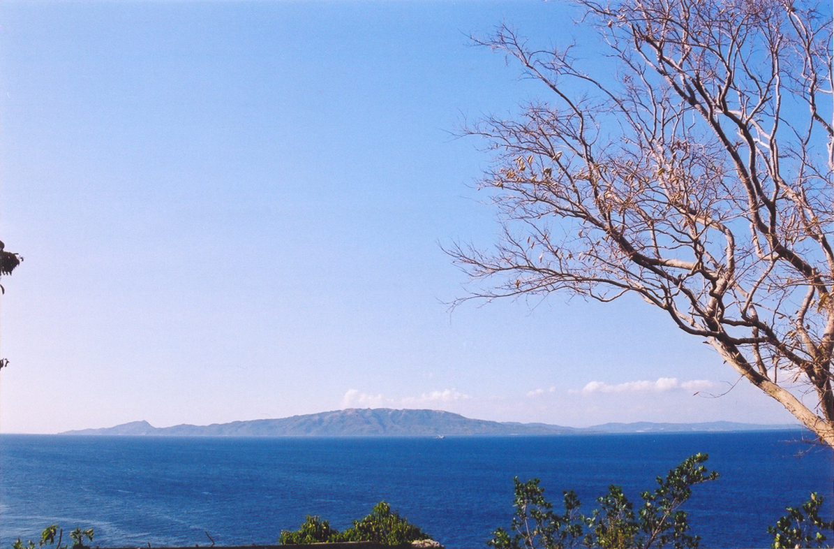 A view from Sabang on the island of Mindoro in the Philippines towards Maricaban Island. On the right further back, the Batangas coast (near Batangas City) can be seen. Picture taken by Magalhães in 2003